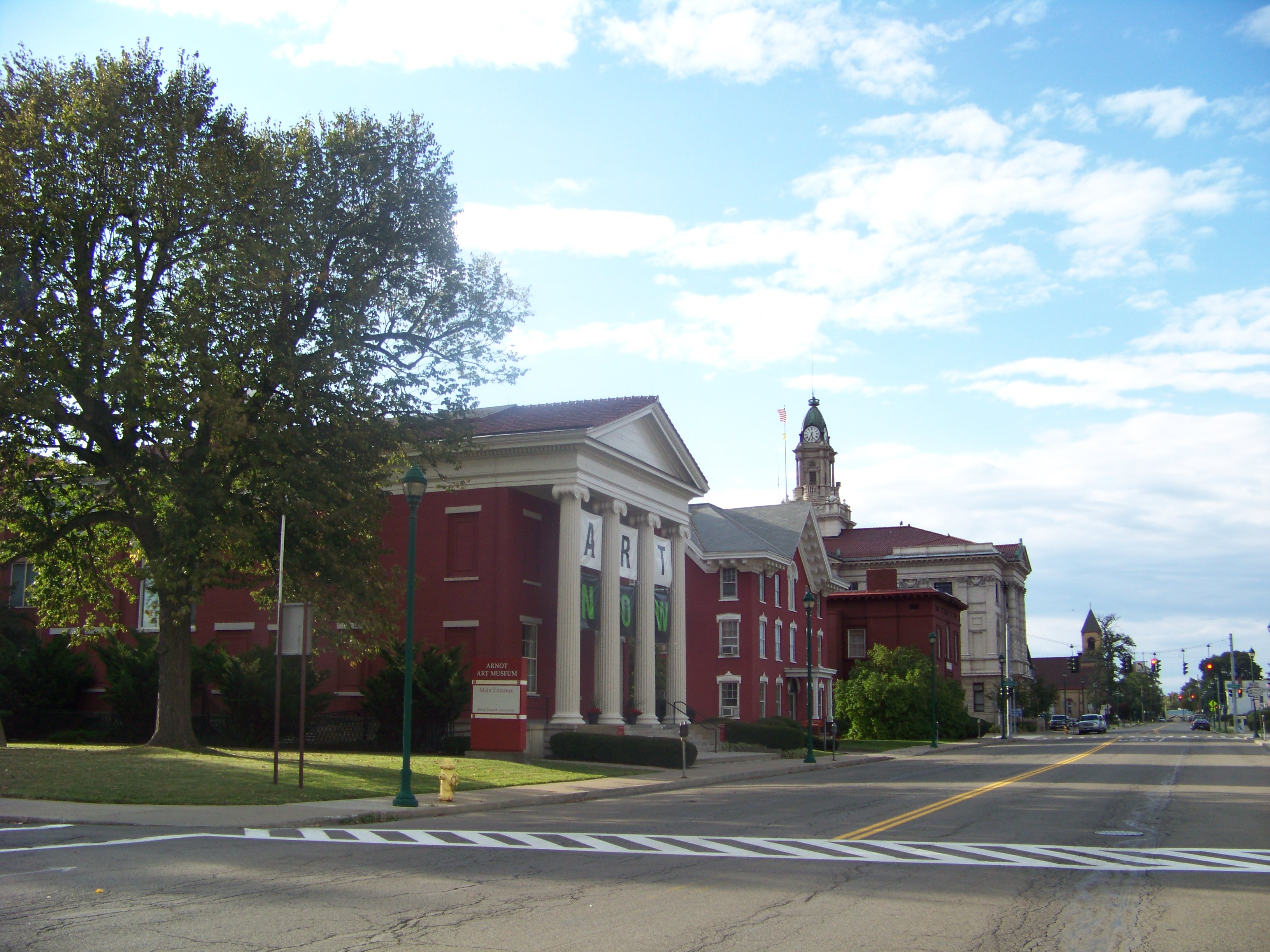 Elmira Civic Historic District, Main Street, Elmira, New York